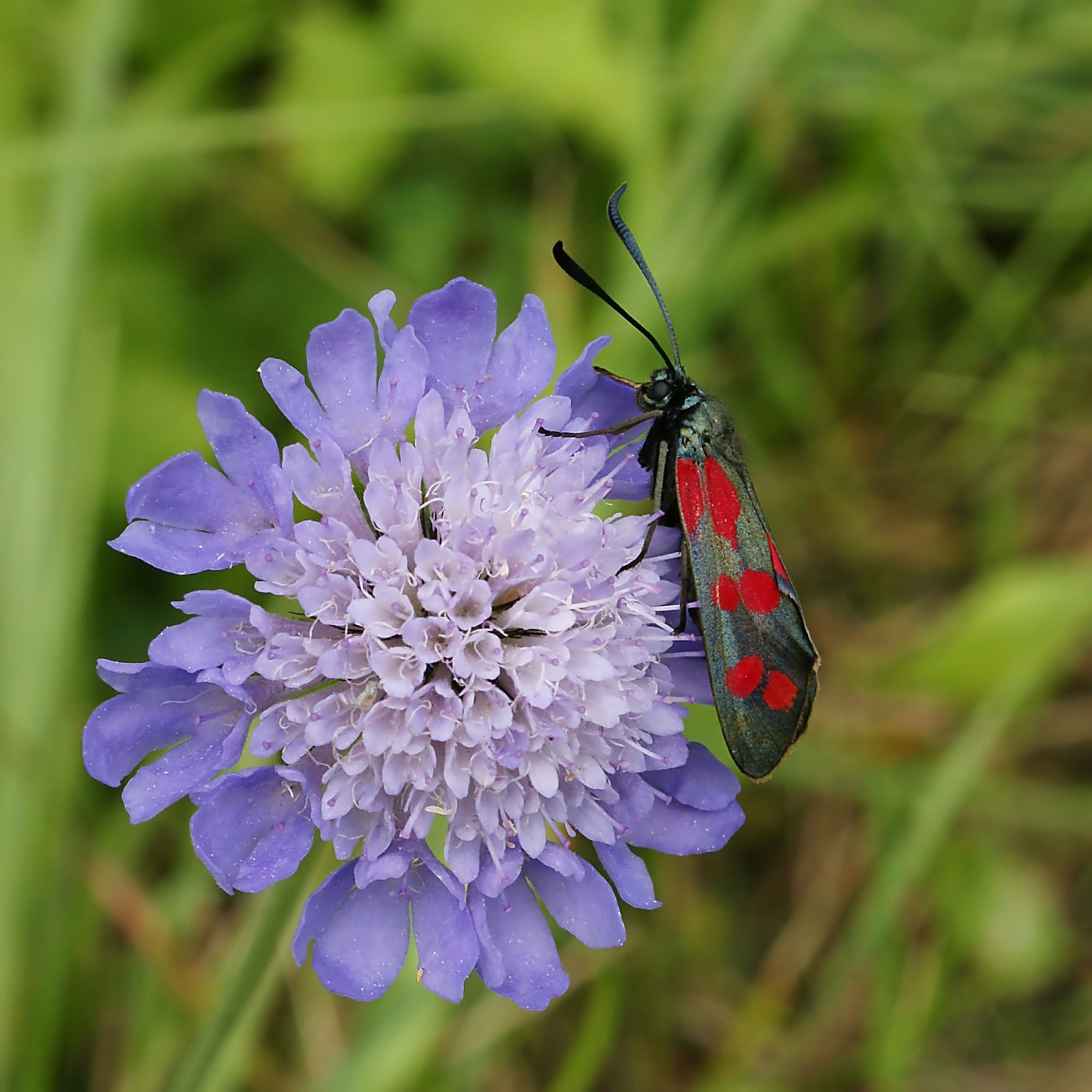 The Six-spot Burnet (Zygaena filipendulae) is a day-flying moth of the family Zygaenidae. It is a common species throughout Europe.